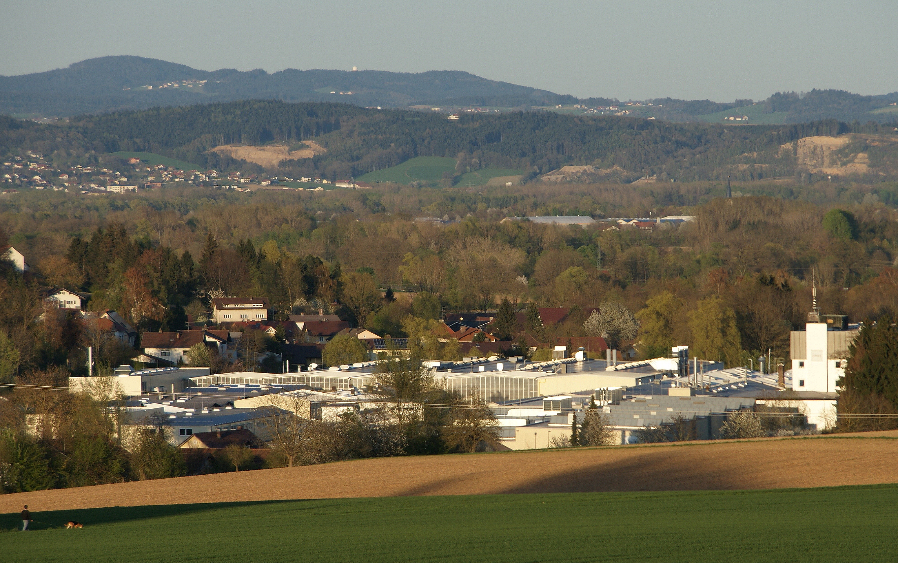 Loher GmbH, Ruhstorf an der Rott